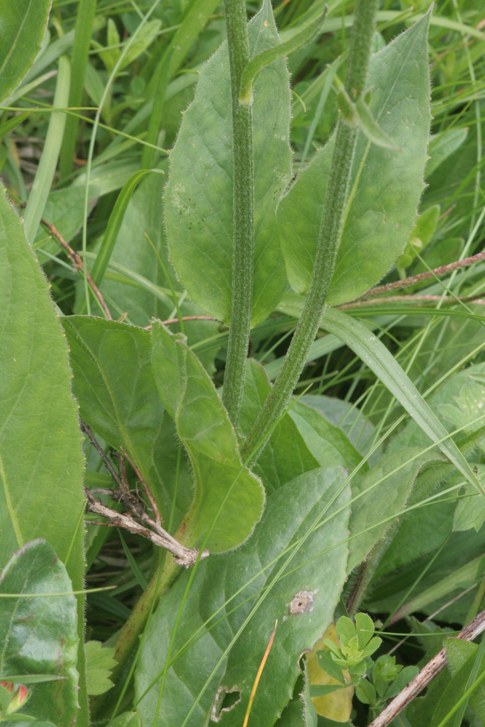 Crepis pontana